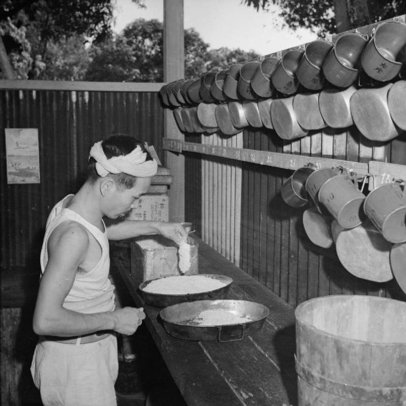 The British Reoccupation of Burma One of the Japanese orderlies prepares food for the officer prisoners of war held at Insein near Rangoon. Held at the camp were seventeen generals, three colonels, three lieutenant colonels, five majors, three captains, five lieutenants, twenty three other ranks and one naval captain. A number of these men, were suspected war criminals.